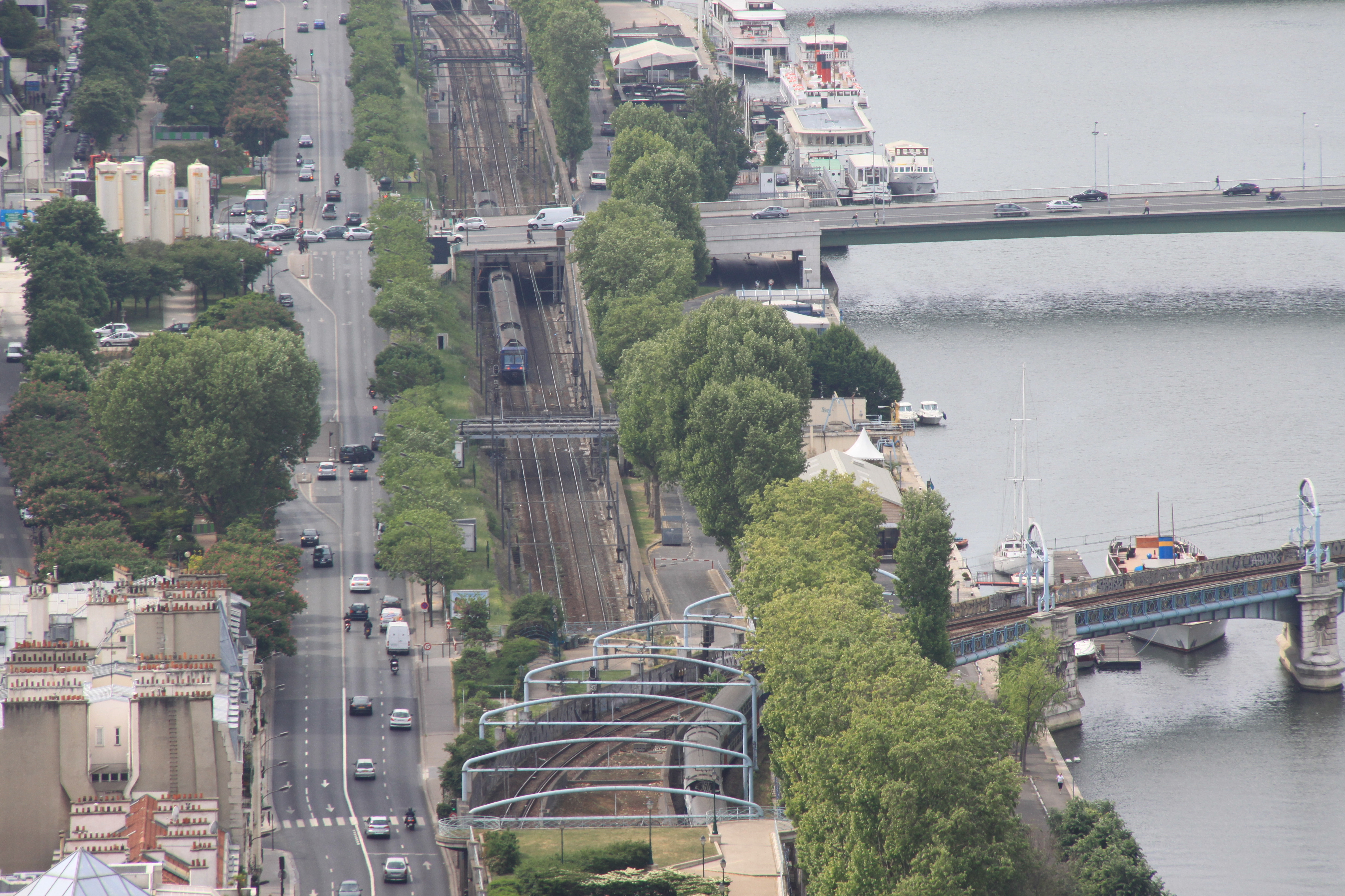 Quai de Grenelle from the Eiffel Tower.